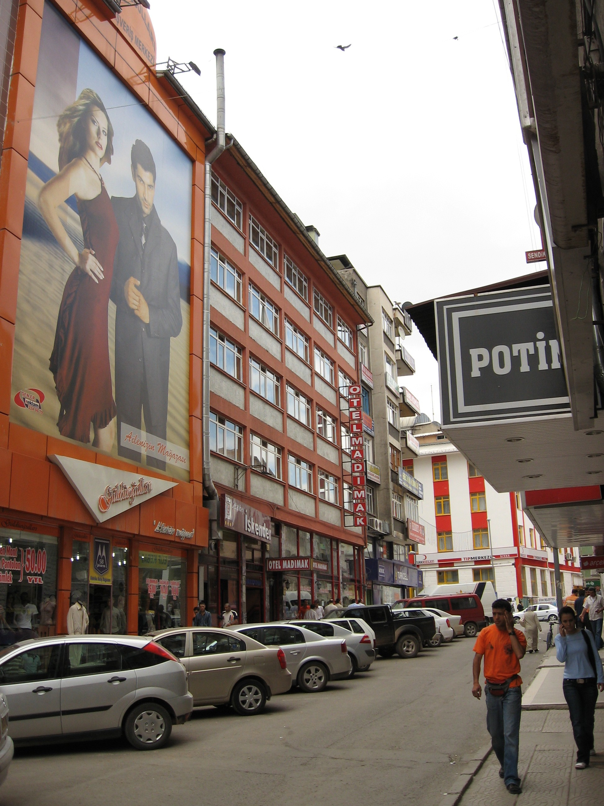 A photograph of Otel Madımak in Sivas from 2007